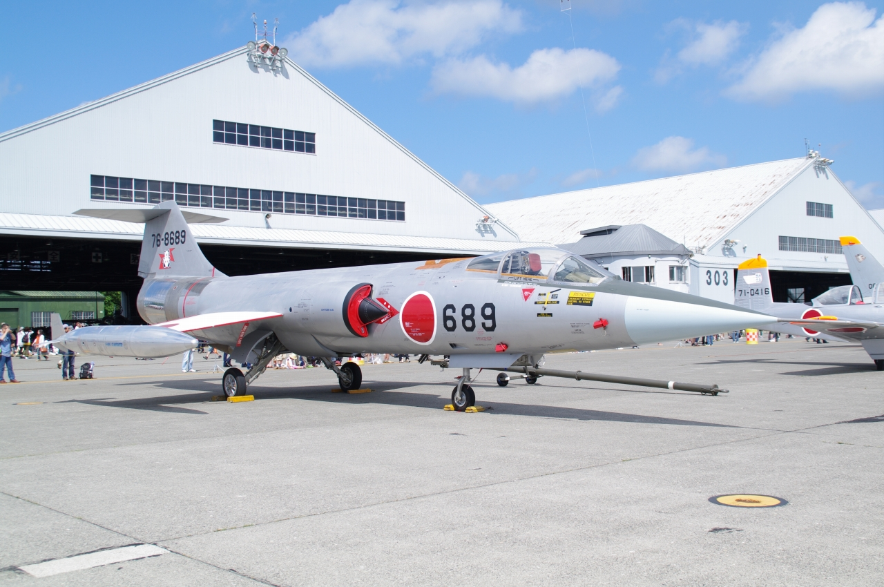 航空自衛隊 千歳基地 航空祭2013（Japan Air Self-Defense Force CHITOSE AIR BASE-Air Festival 2013）